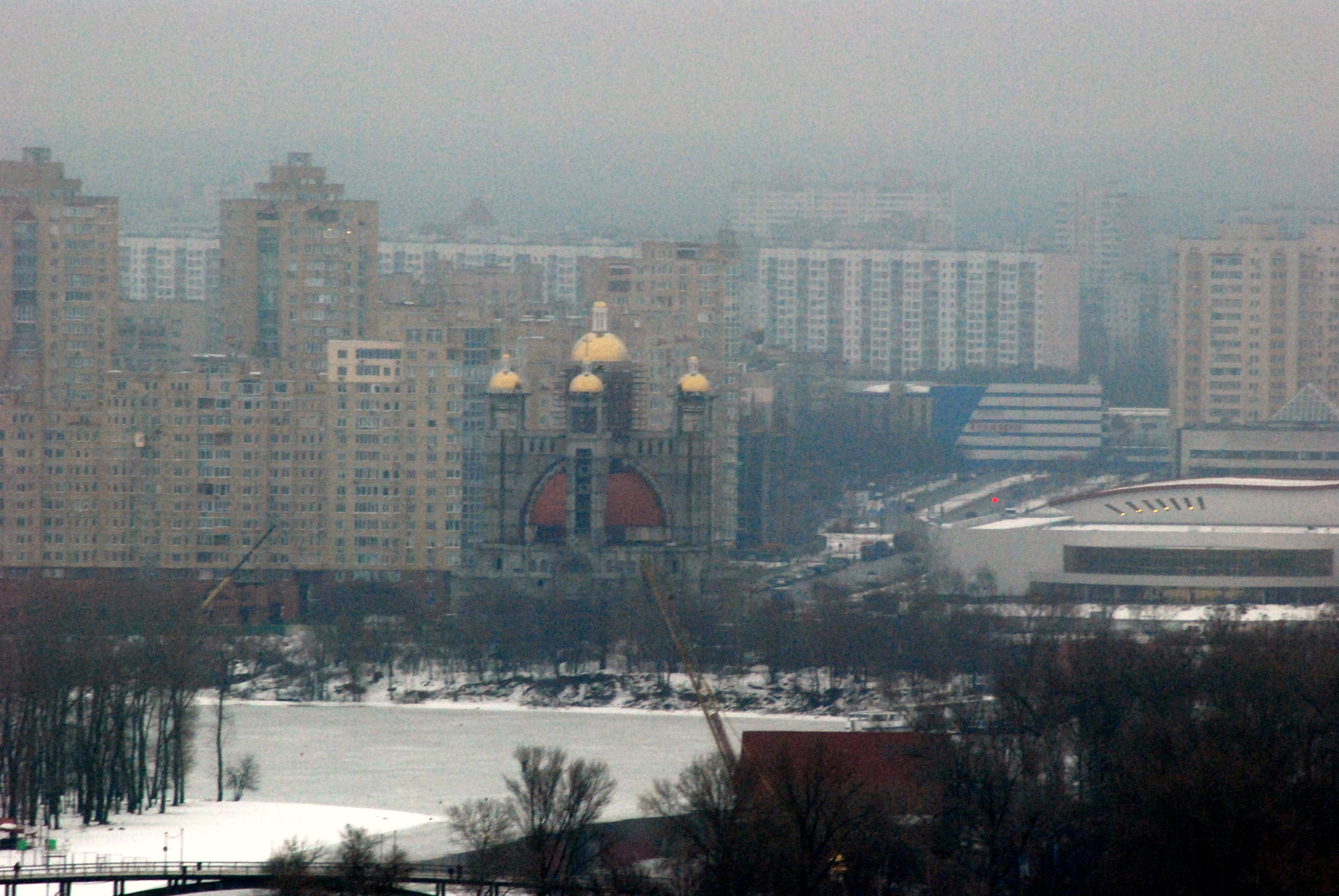 Dnipro district of Kiev as seen from the other side of the Dneper.